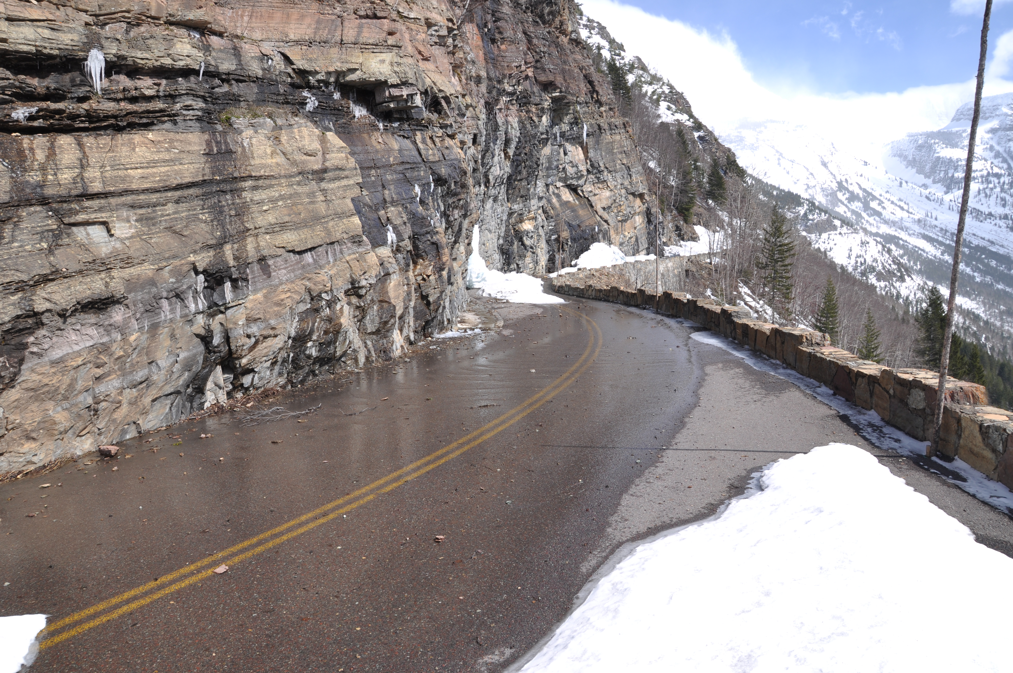 4-8-13 Above the Loop 3